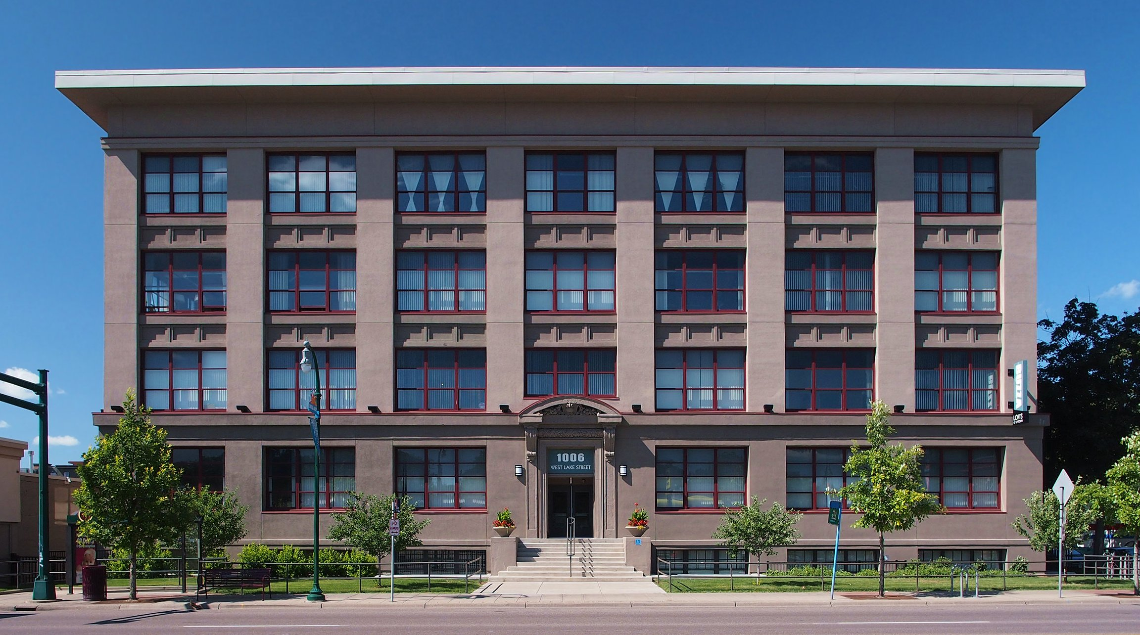 Buzza Company Building, 1006 W Lake St, Minneapolis, Minnesota, USA. Viewed from the south.